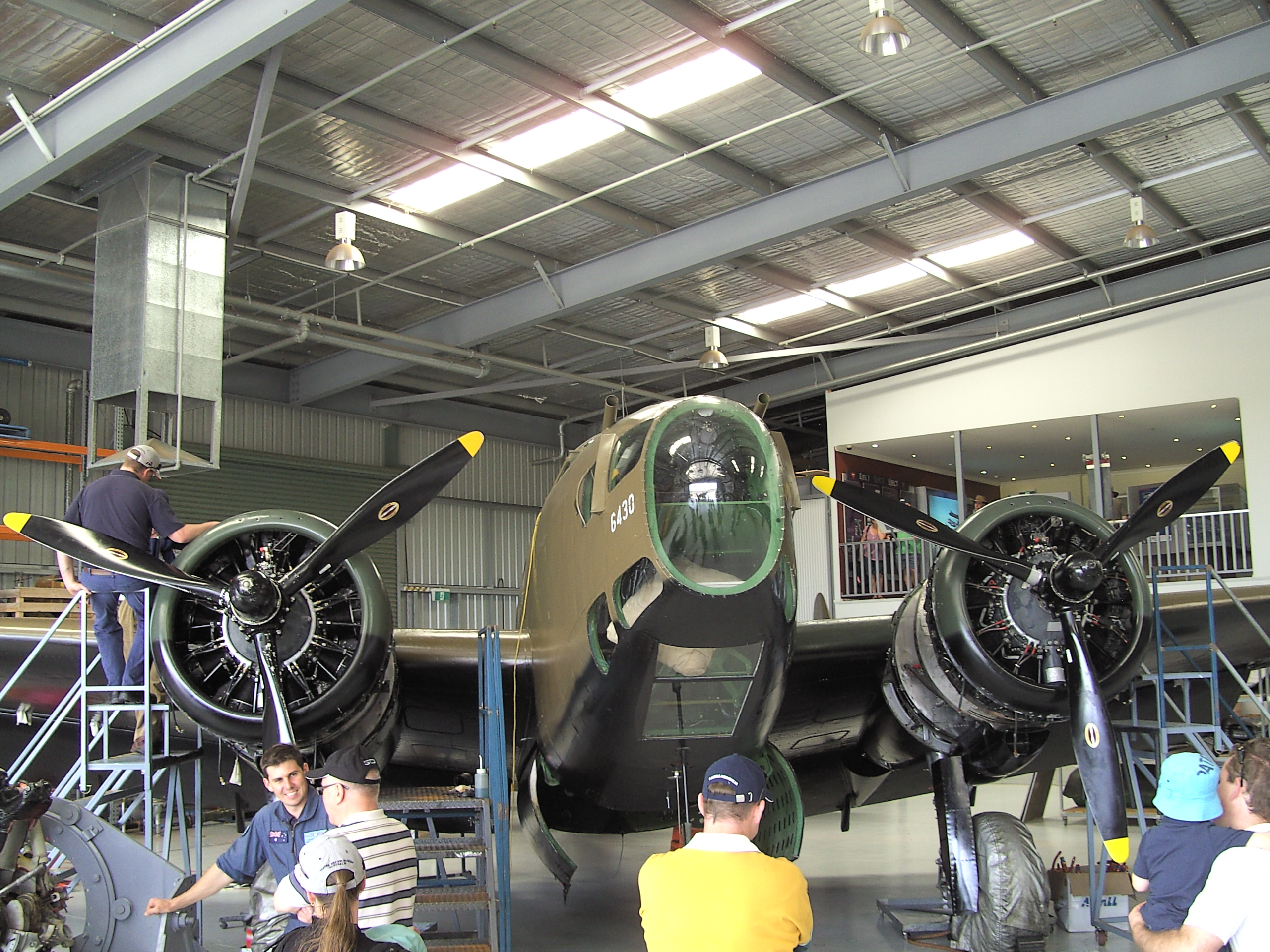 Lockheed Hudson at (Temora Aviation Museum)